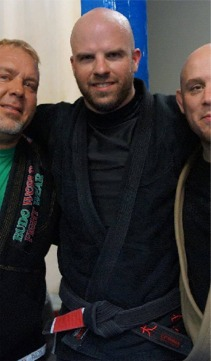 Ryan Gruhn with Erik Paulson and Danny Suarez